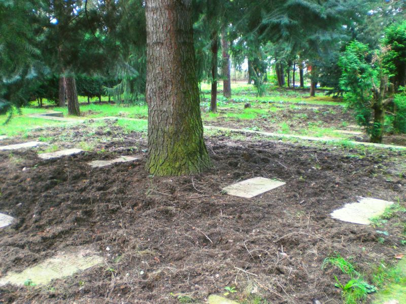 jpg